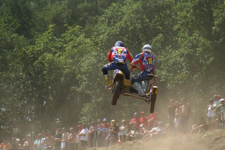 Hoge sprong van een zijspancrosser High jump of a sidecarcross, properbly Daniel Willemsen and Sven Verbrugge in the 2006 sidecarcross worldchampionship.